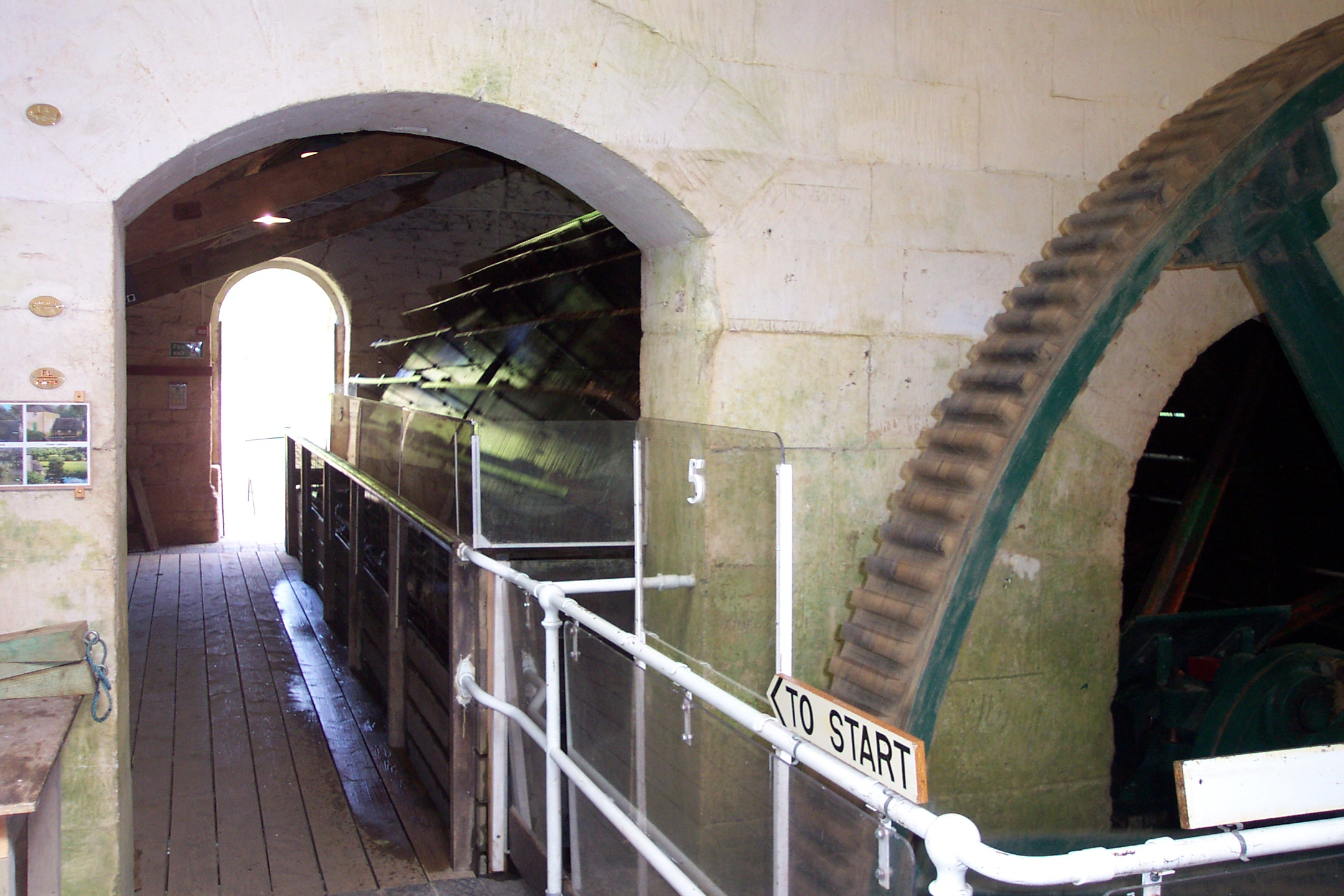 Claverton Pumping Station, on the River Avon, in the county of Somersetin England, showing the waterwheel and gearing. For more information see the Wikipedia article Claverton Pumping Station.